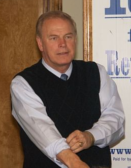 Ted Strickland, campaigning for Jeff Ruppert.